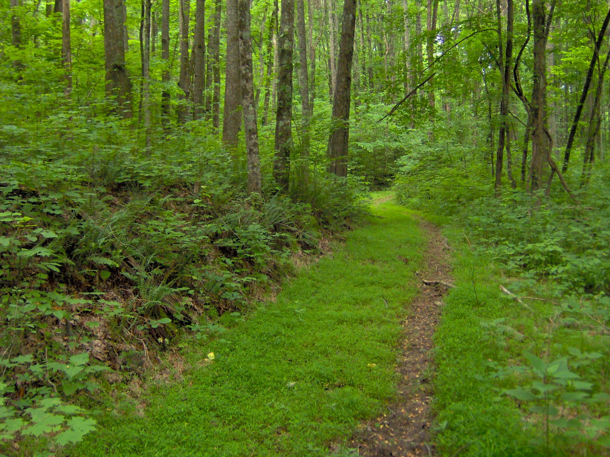 Young forest along the crest of Cooper Mountain in Standing Stone State Forest in Overton County, Tennessee, in the southeastern United States. This trail is an extension of a forestry maintenance road that intersects the Cooper Mountain Trail appx. 2.5 miles east of the trail's Mill Creek bridge access.